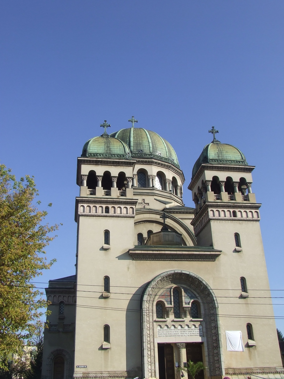 Greek Catholic Cathedral in Satu Mare, Romania